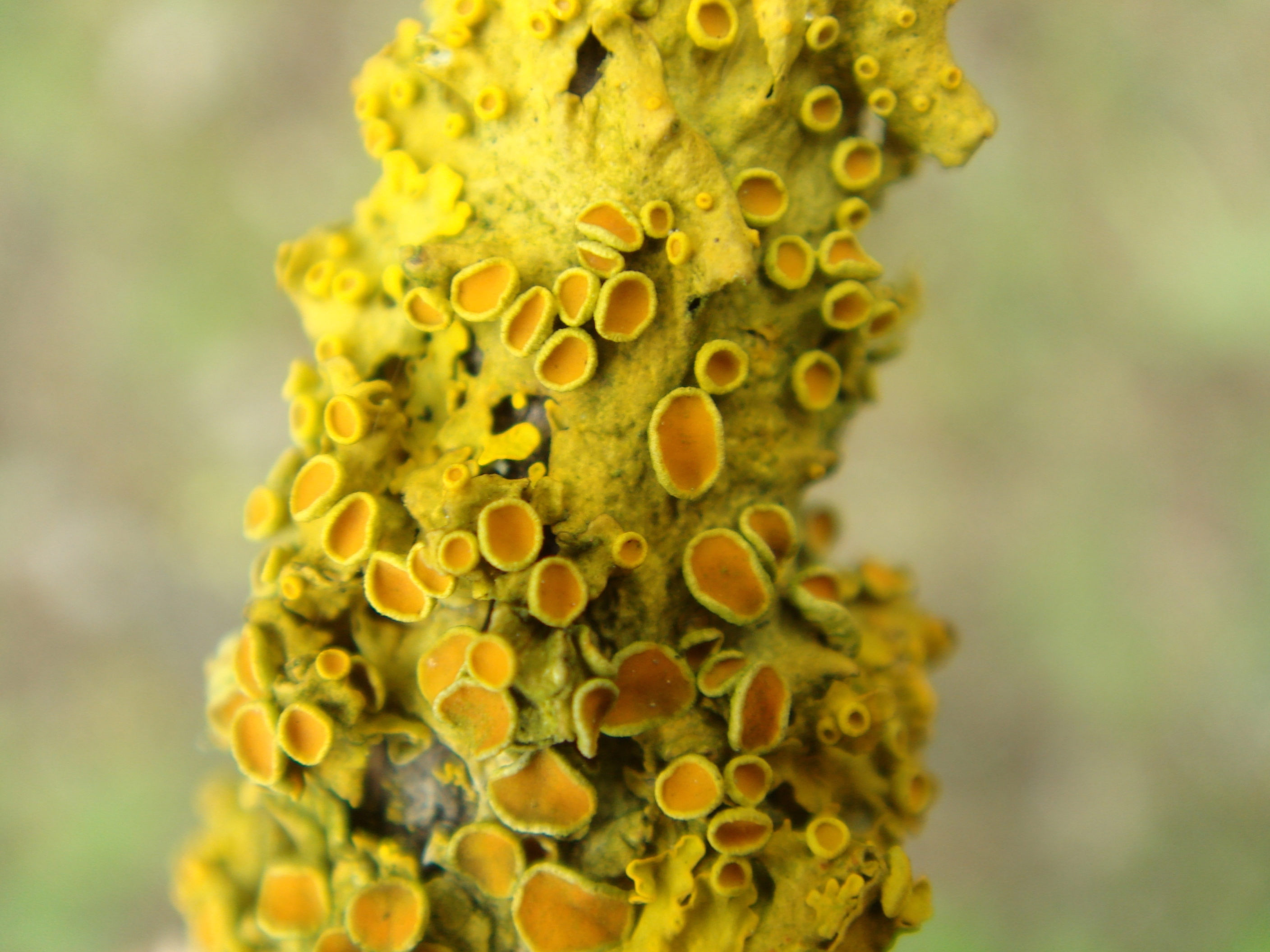 Xanthoria parietina auf Ast / Xanthoria parietina on stick